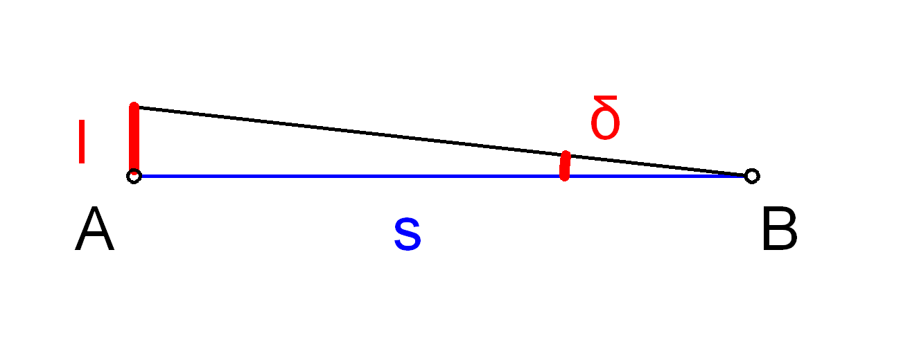 Skinny triangle - czech